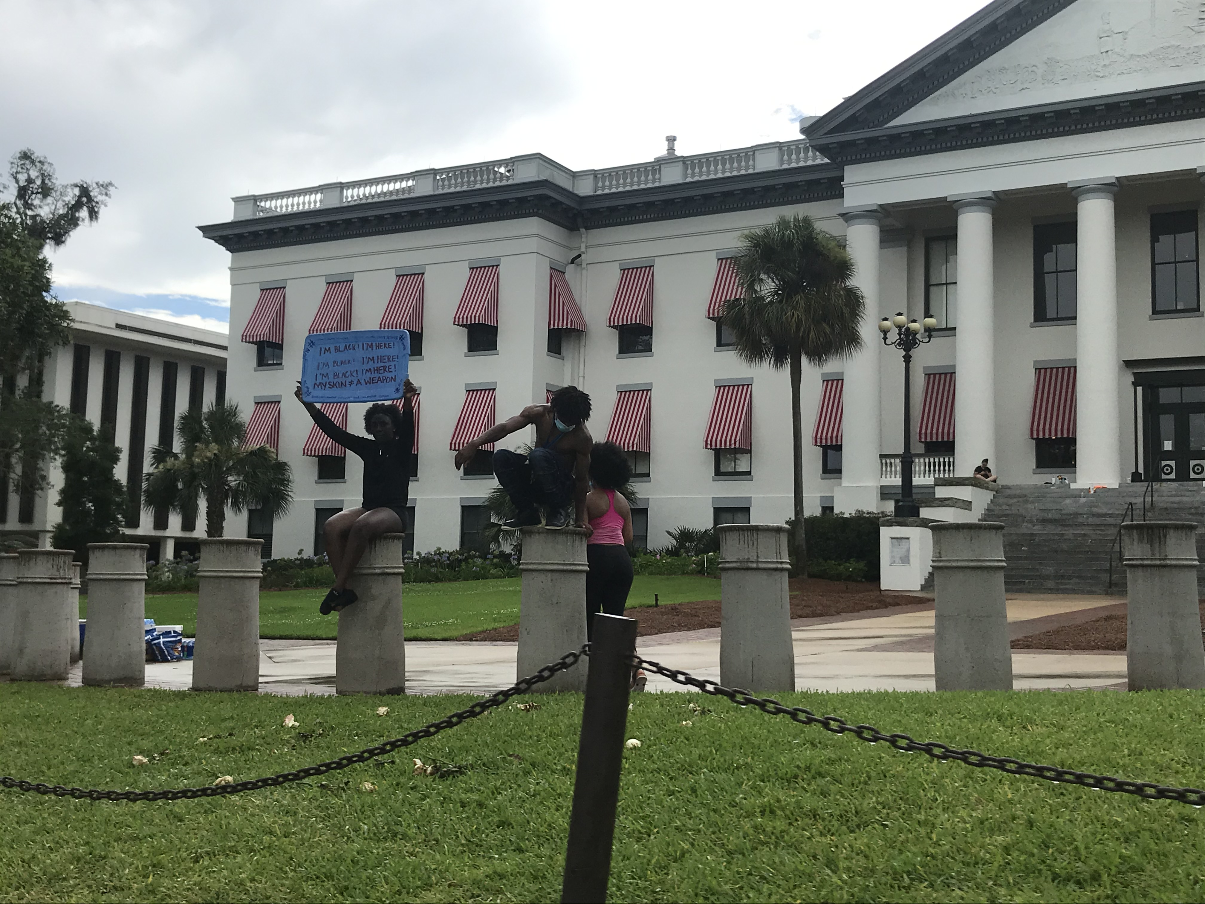 George Floyd protesters in front of the State Capitol in Tallahassee.